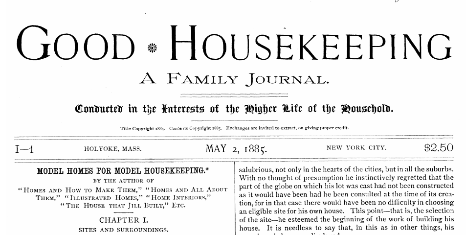 The masthead of the first issue of Good Housekeeping, as it appeared when published by Clark W. Bryan in Holyoke on May 2, 1885.